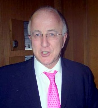 Denis MacShane MP. Picture taken in House of Commons, London, 6 February 2008